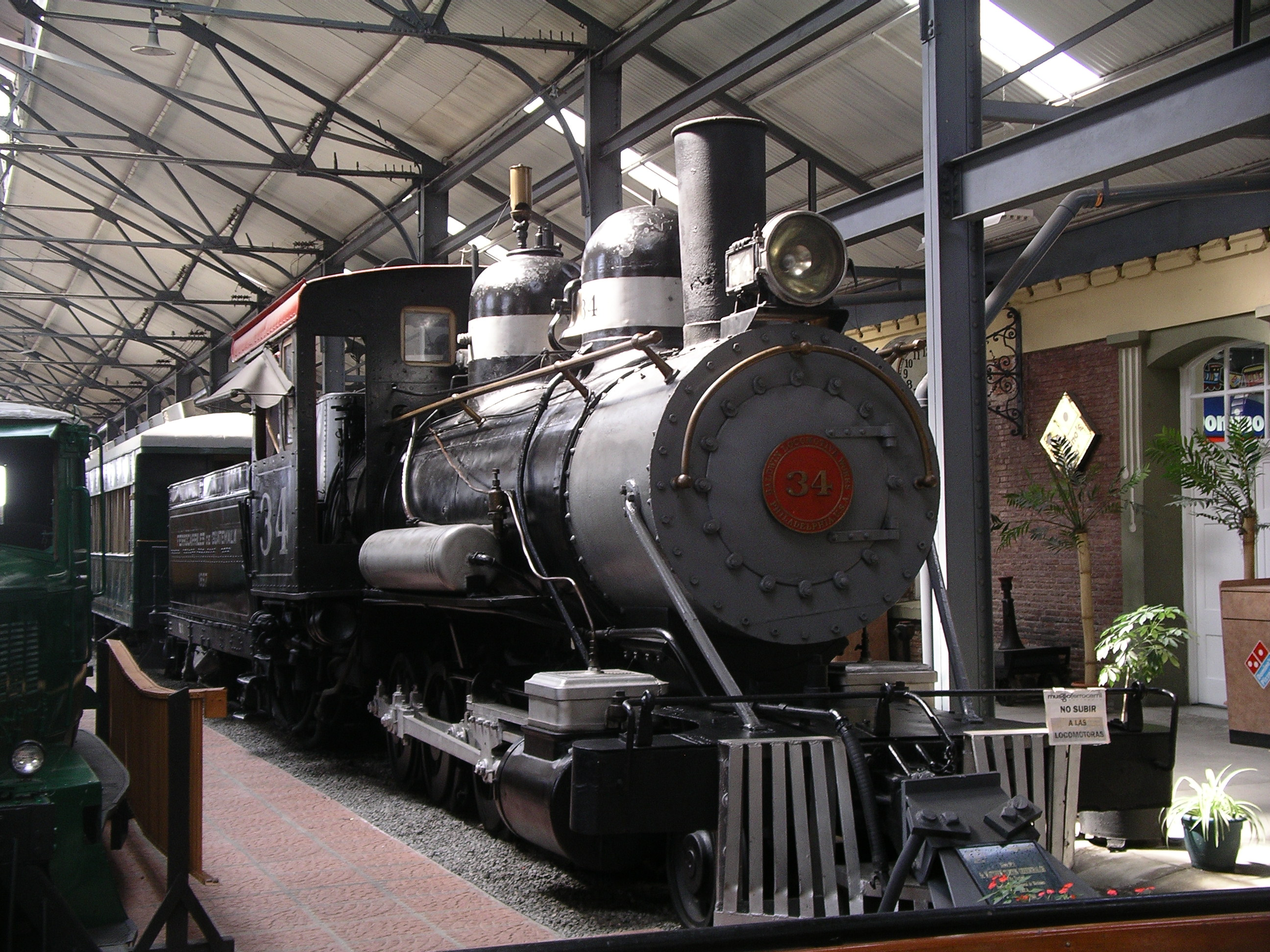 Steam locomotive No 34 of Ferrocarriles de Guatemala (FEGUA), manufactured by Baldwin Locomotive Works in Philadelphia in 1897, inside the Guatemala City Railway Museum.